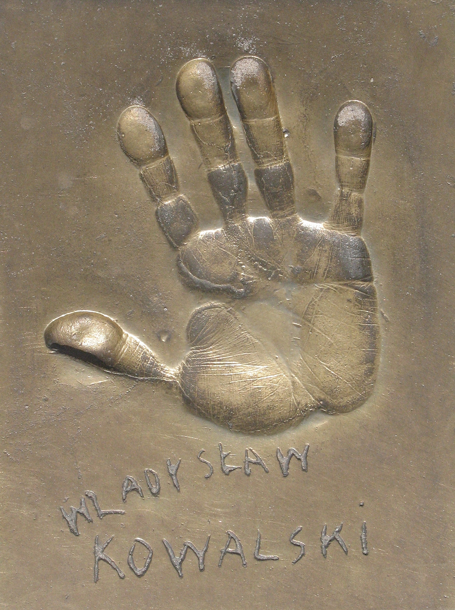 Władysław Kowalski - handprint and signature in Międzyzdroje